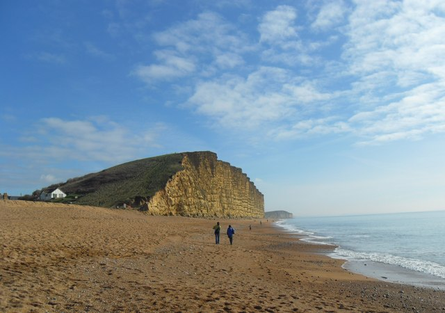 East Cliff Westbay